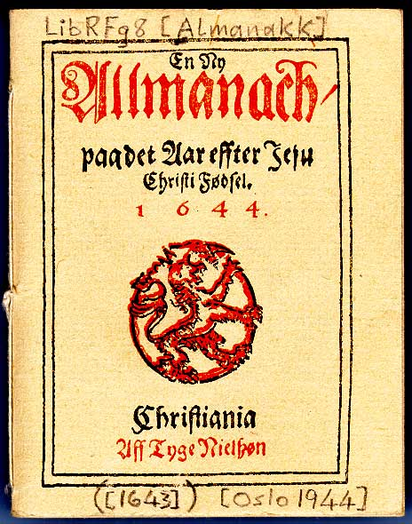 Image of the first book ever published in Norway, the almanac (nn/nb) Allmanach paa det aar efter Jesu Christi Fødsel 1644 (nn/nb), published by Tyge Nielssøn (nn/nb) in 1644 (nn/nb).